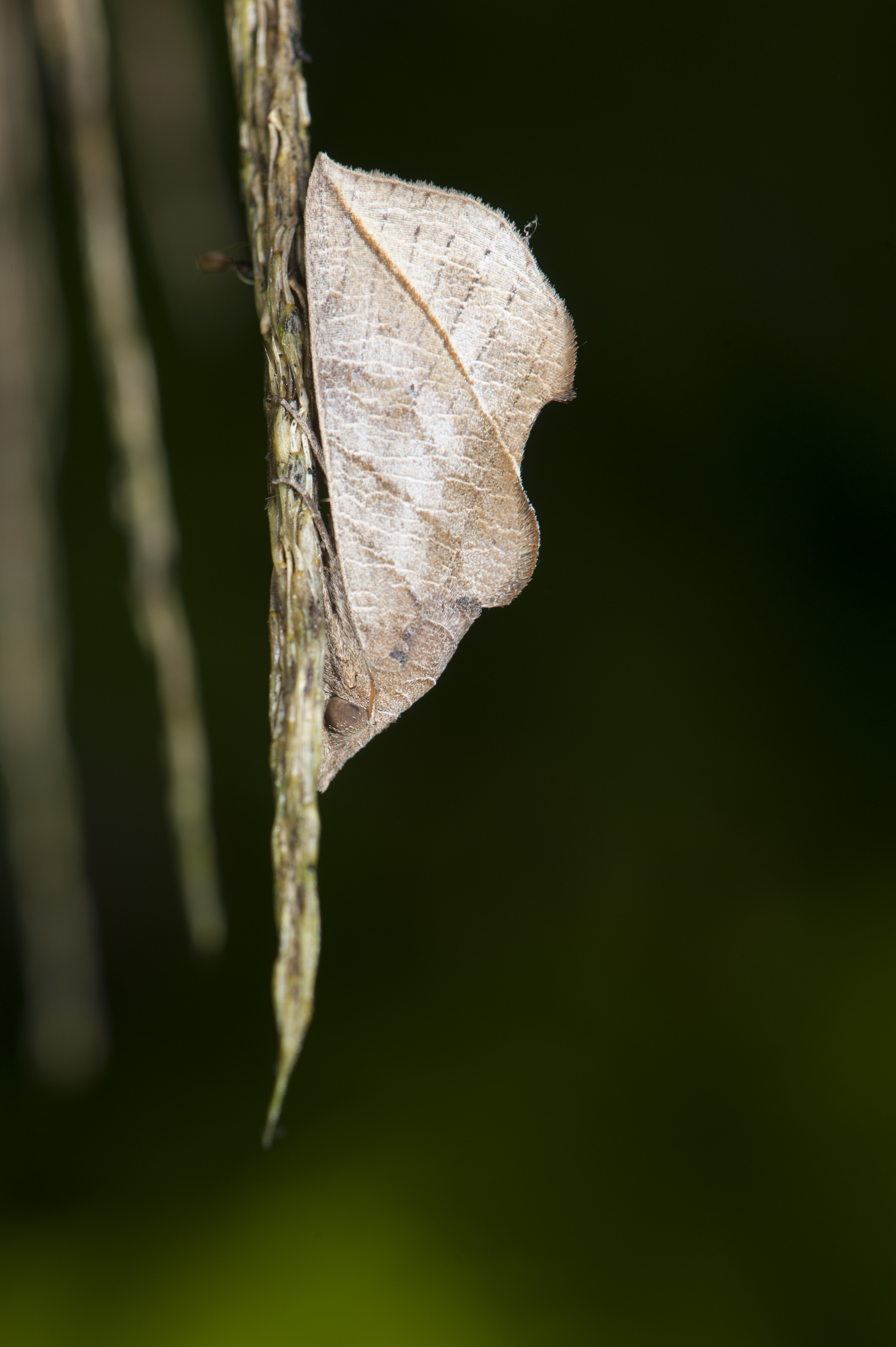 _DSK5763 Calyptra minuticornis